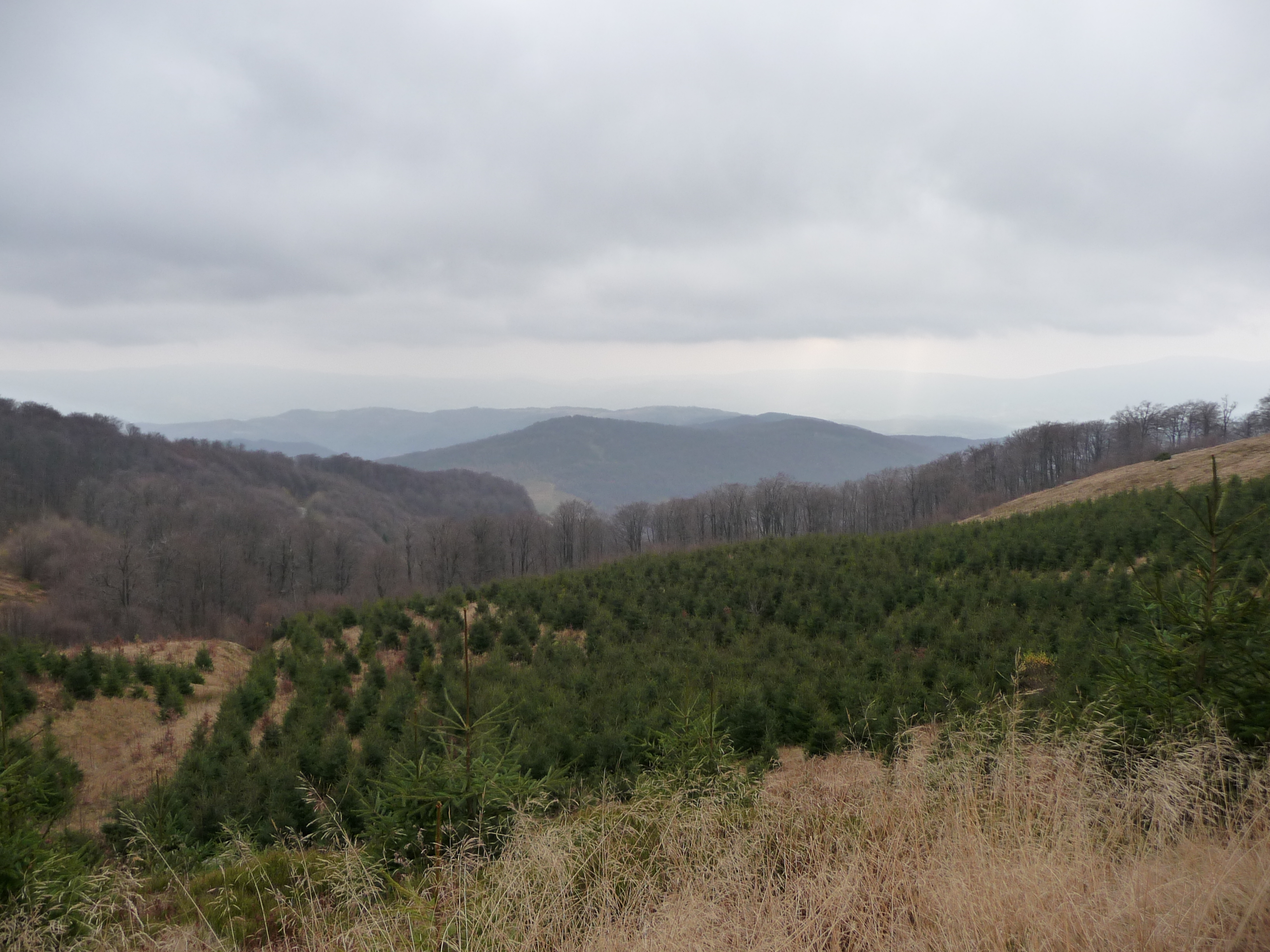 Polonyna Runa